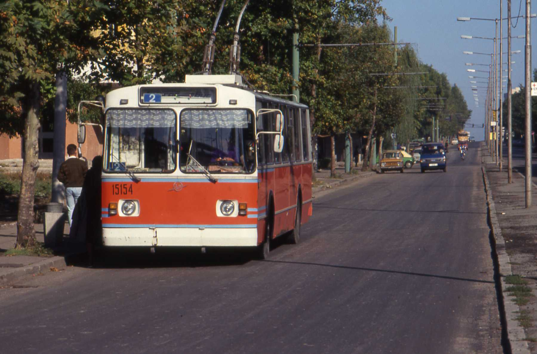 More wonderful Burgas ZiU action here from 2008 A total of 20 Ziu vehicles entered service in Burgas. This is really fleet number 15 and is a 1989 ЗиУ-682B0А